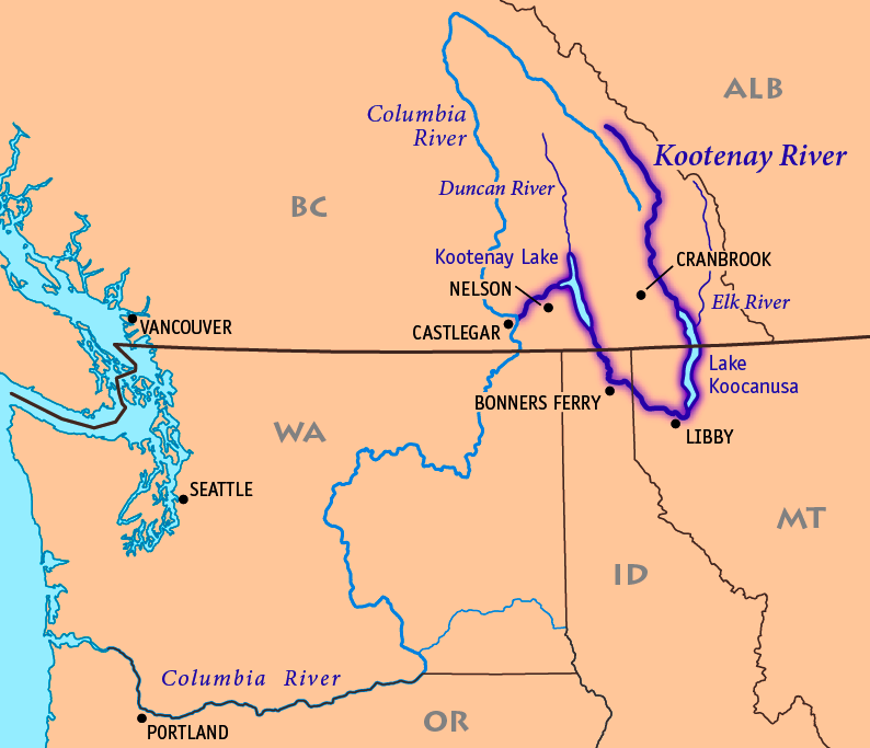 This is a map of the Kootenay River — of the Northwest Plateau. Includes the current political borders of Canada and Northwestern United States. I, Pfly, created it based on USGS and Digital Chart of the World data.